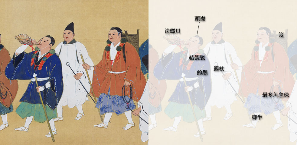 Appearance of Yamabushi